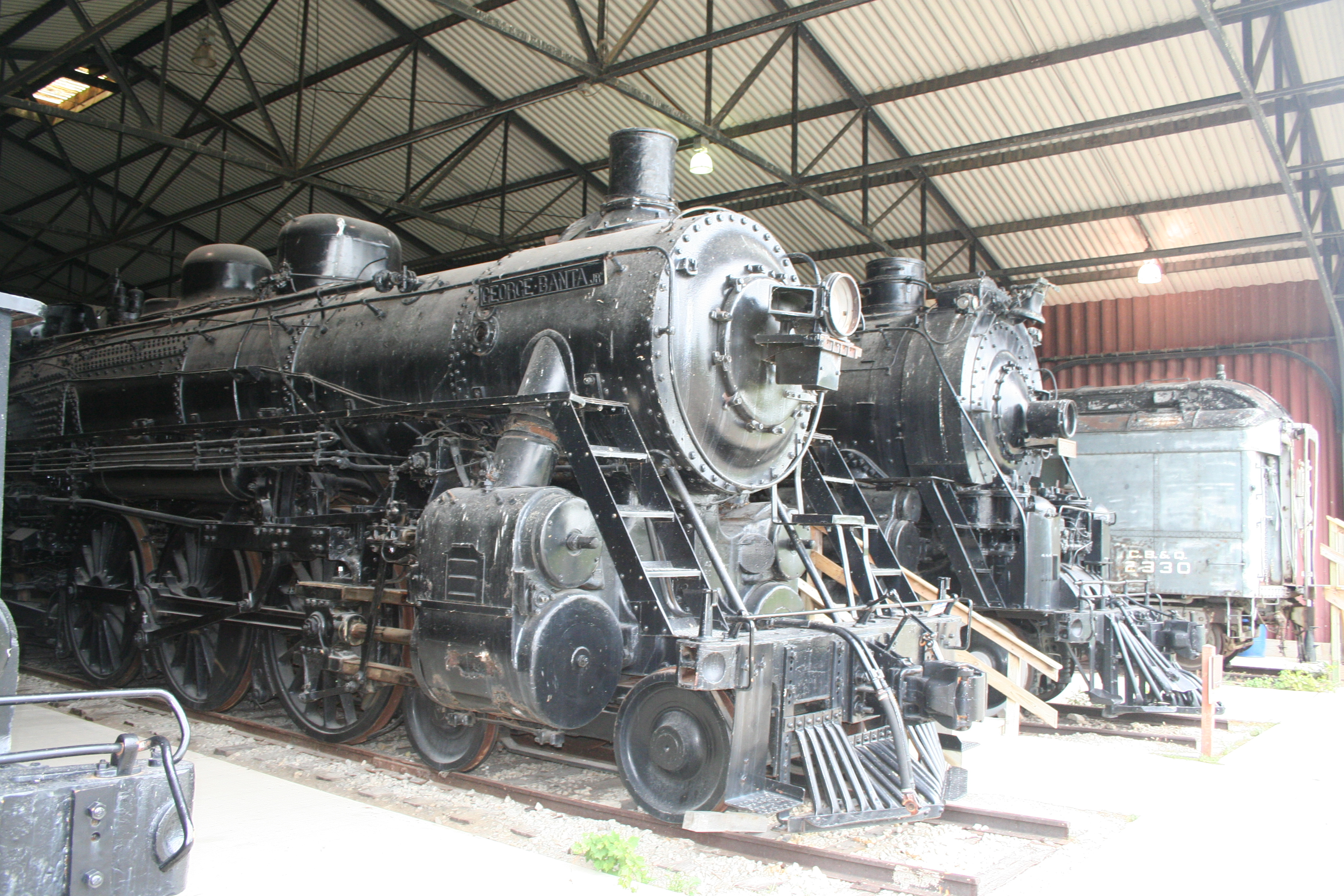 Victor McCormick Train Pavilion, National Railroad Museum, Green Bay, WI